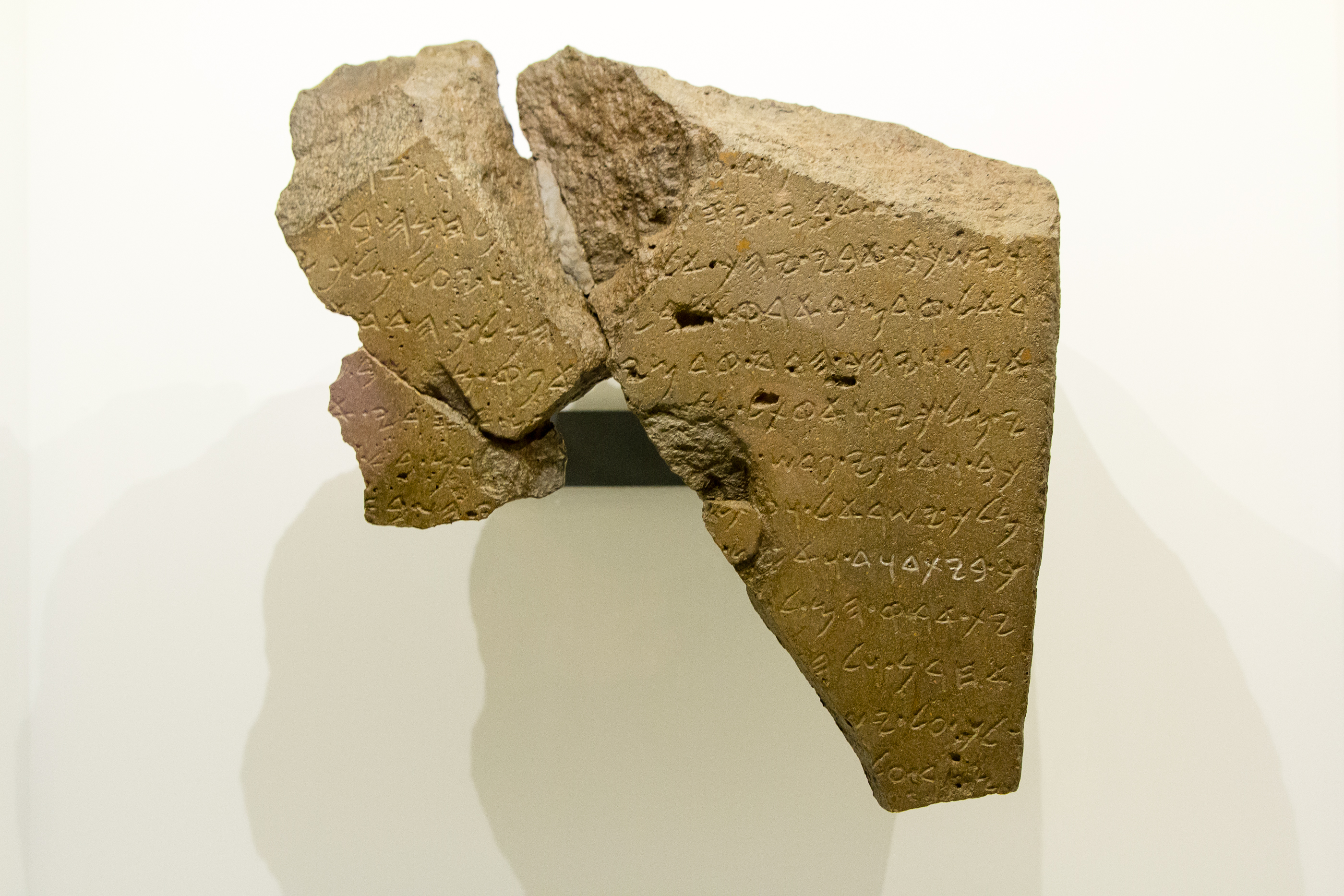 The Tel Dan Stele on temporary display at the Bible Lands Museum's Khirbet Qeiyafa exhibition